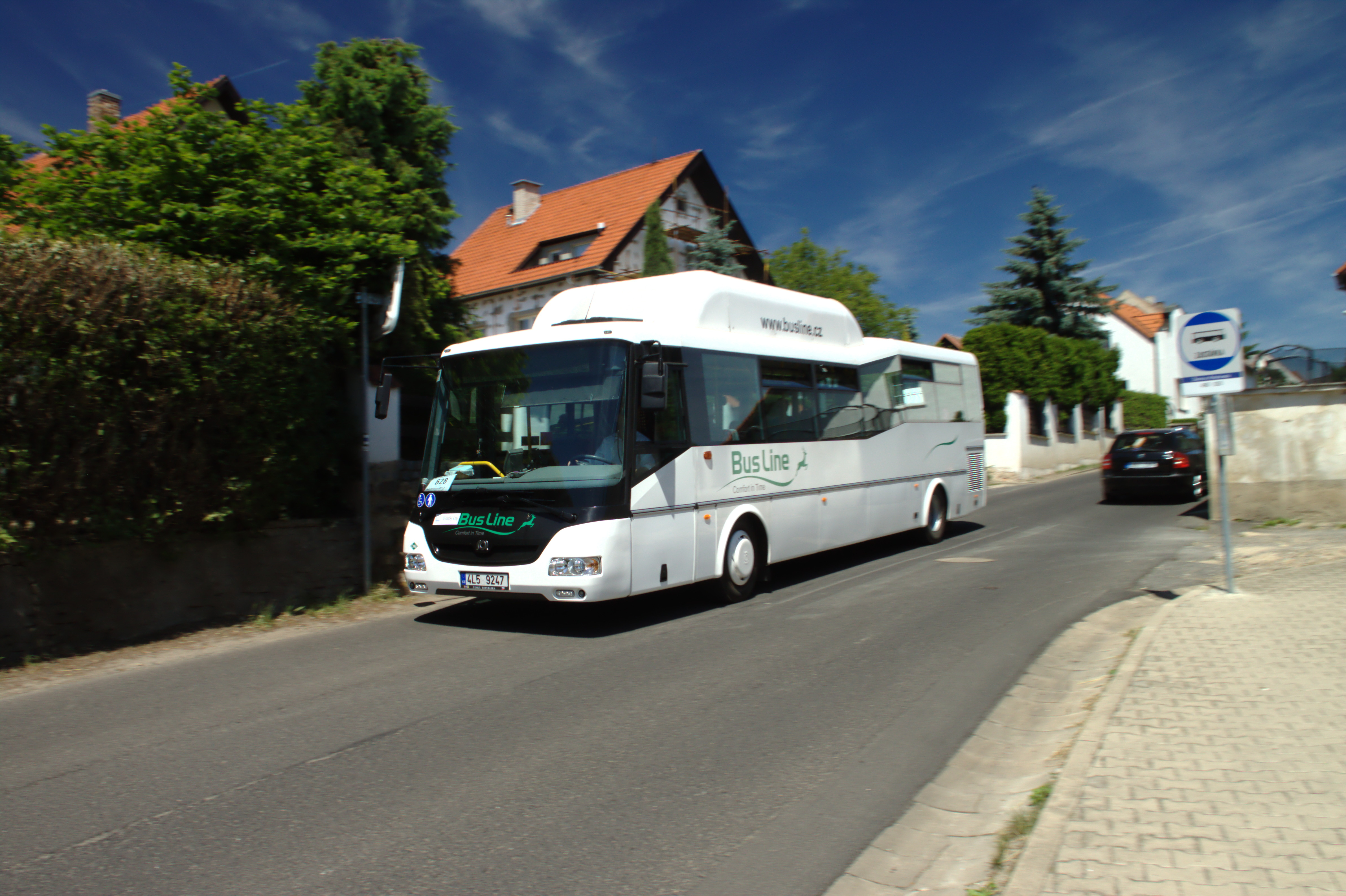 A bus passing through Žitenice on a regular line, Ústí Region, CZ